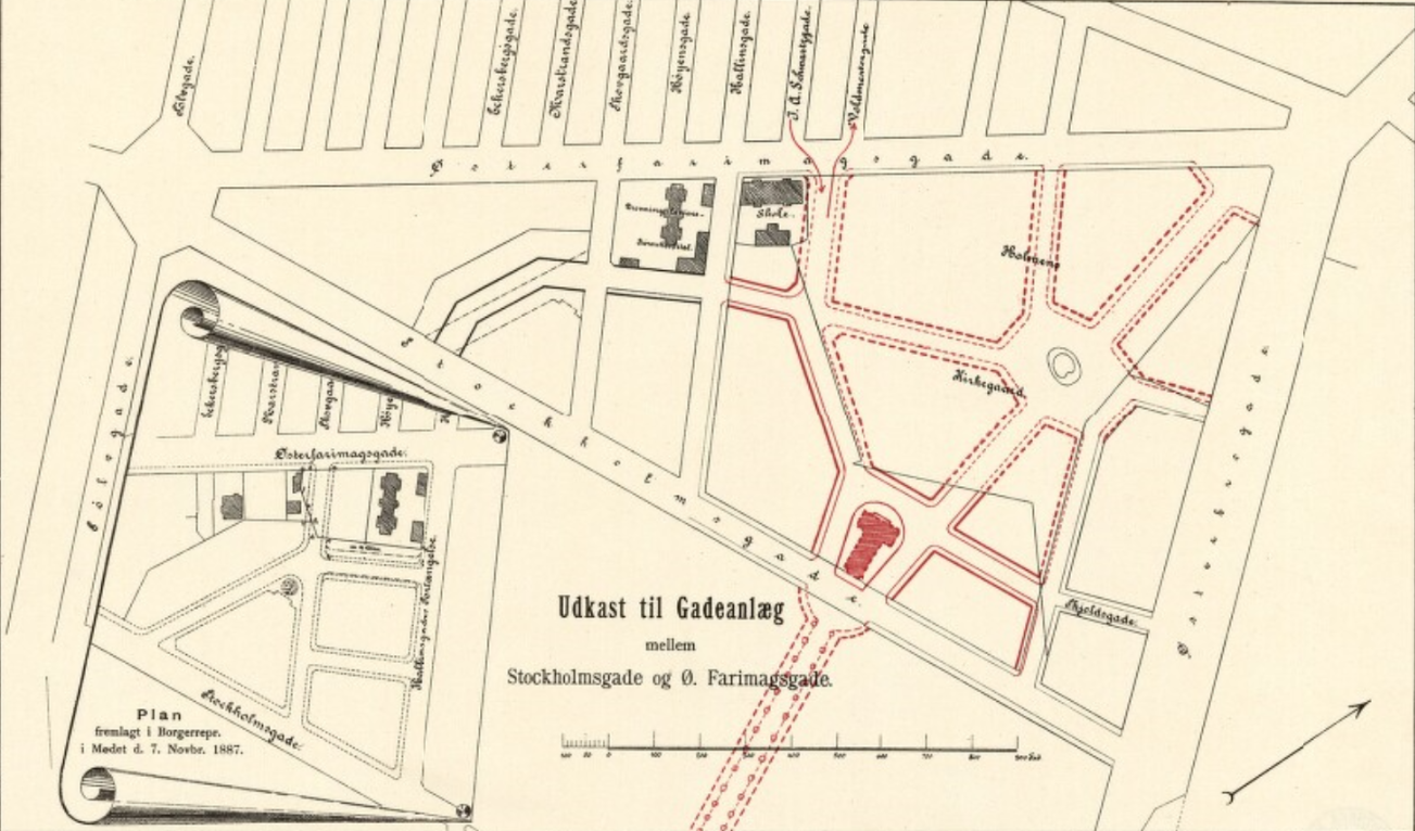 1889-90 plan for streets in the area between Stockholmsgade and Østerfarimagsgade in Copenhagen, Denmark